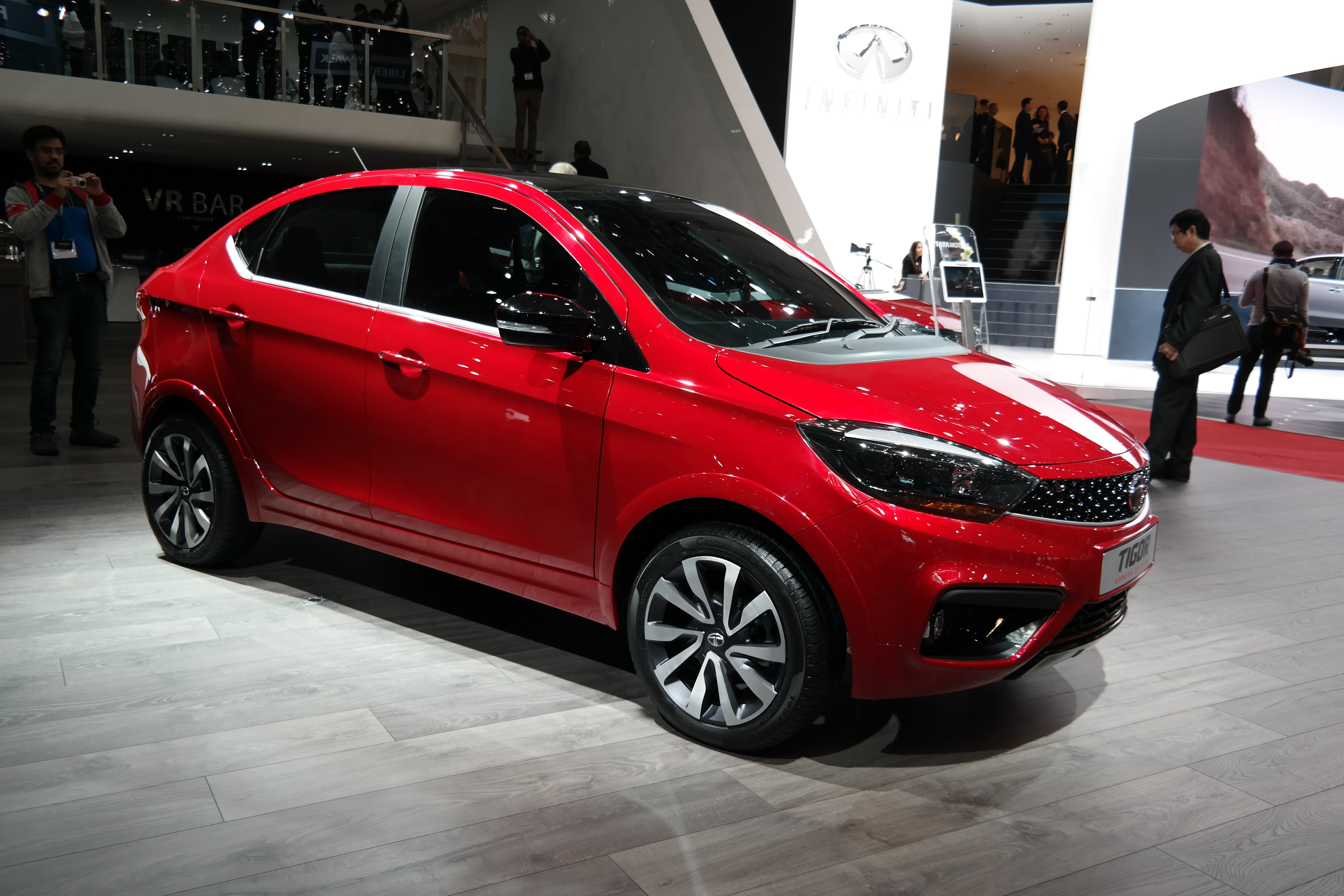 Geneva Motor Show 2017 (photo taken on the first press day)